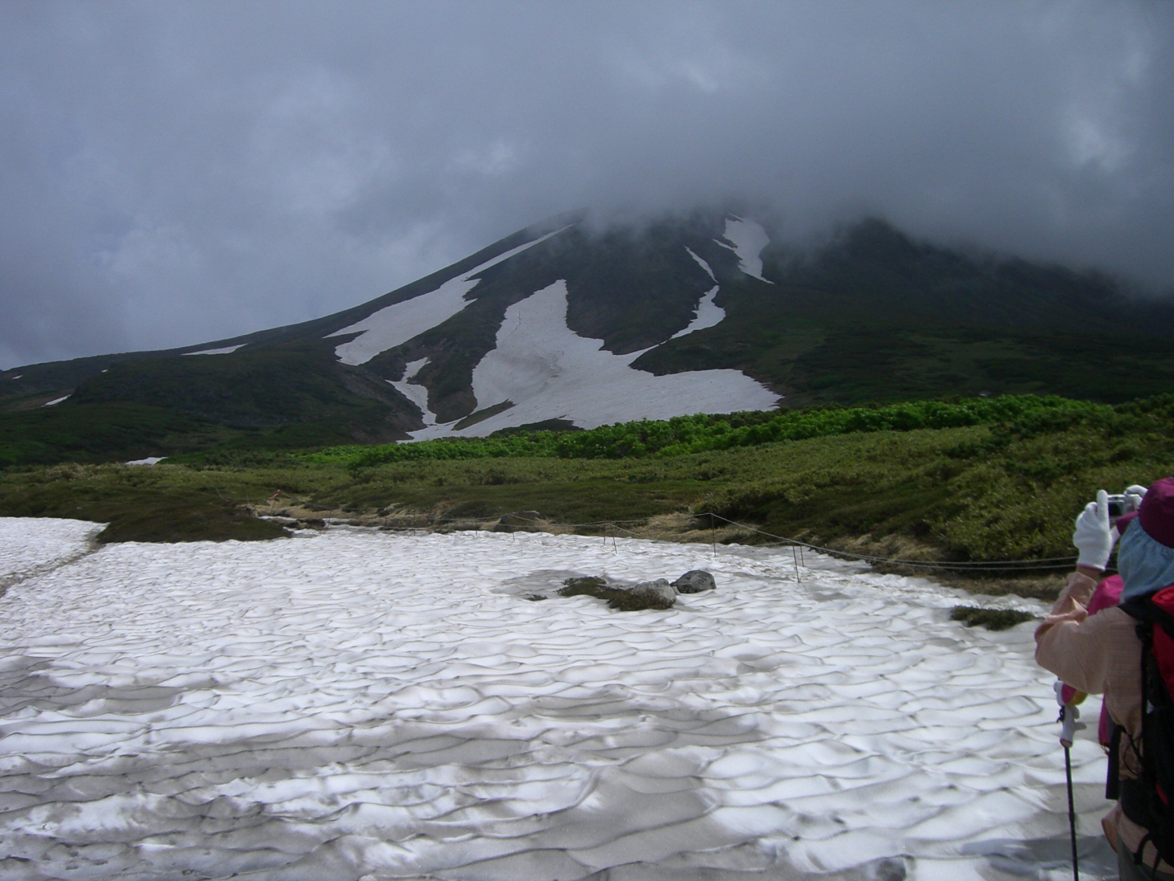 Daisetsu-zan, hokkaido, Japan. On the mountain side there was remaining snow in a swan-shape spreading its wings in july.7月の大雪山旭岳に見られる「白鳥の雪形」